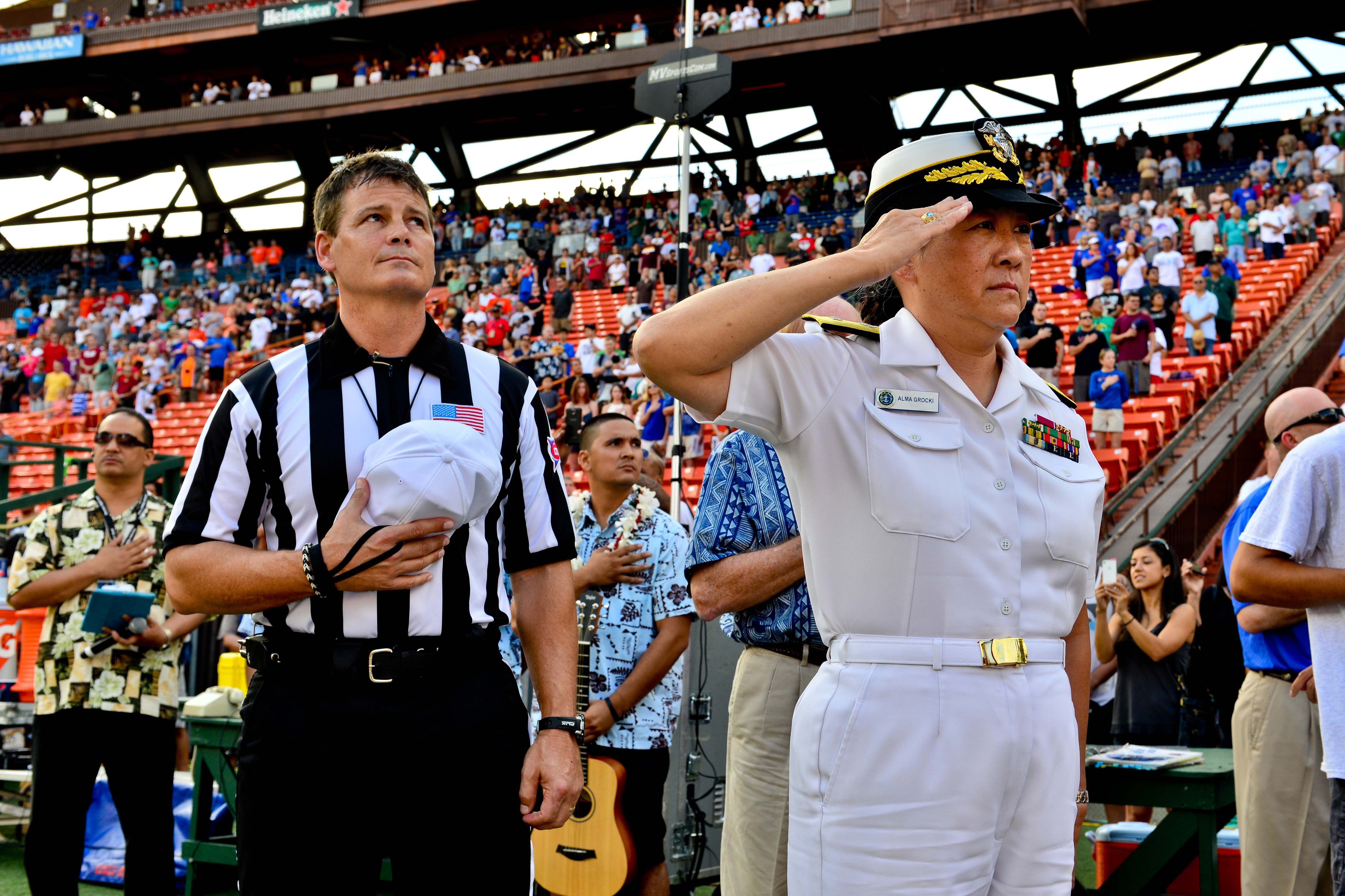 Rear Adm. Alma M. Grocki, U.S. Pacific Fleet's deputy chief of staff for fleet maintenance, salutes during the national anthem at the 2013 Sheraton Hawaii Bowl between Boise State and Oregon State at Aloha Stadium. Grocki took part in the ceremonial coin toss to begin the game.